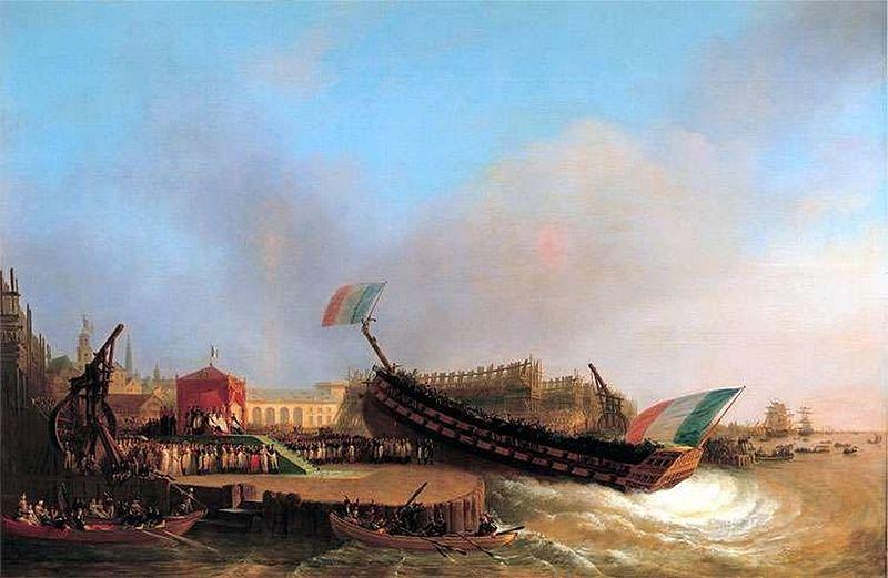 Launching of the Friedland.